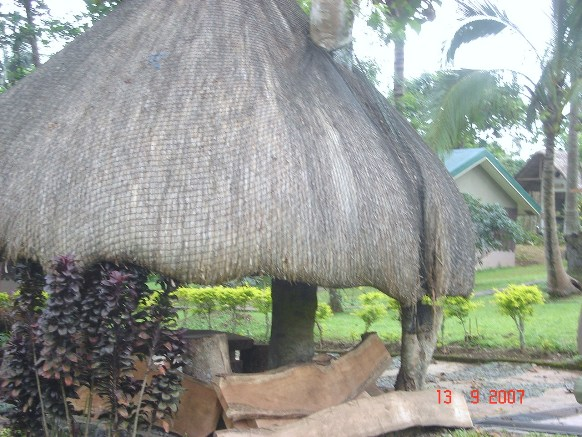 A photo from the Oasis of Prayer, an annex/retreat location of the Rogationist College of Silang, Cavite, Philippines